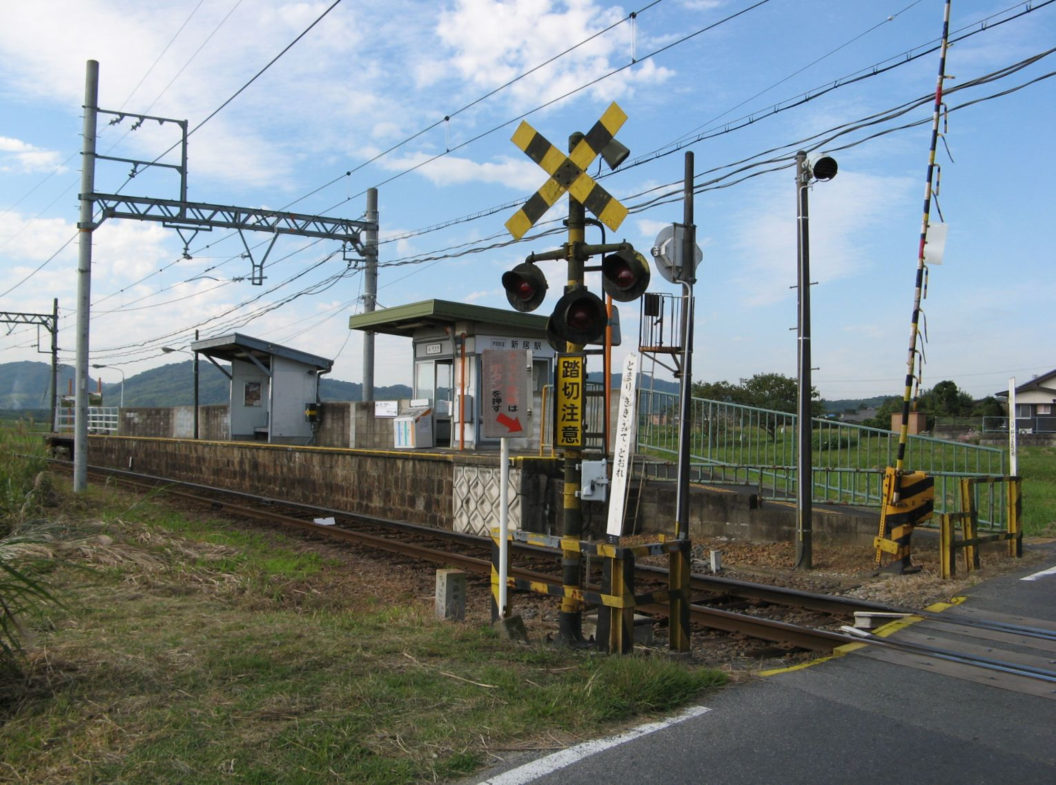 Nii Station